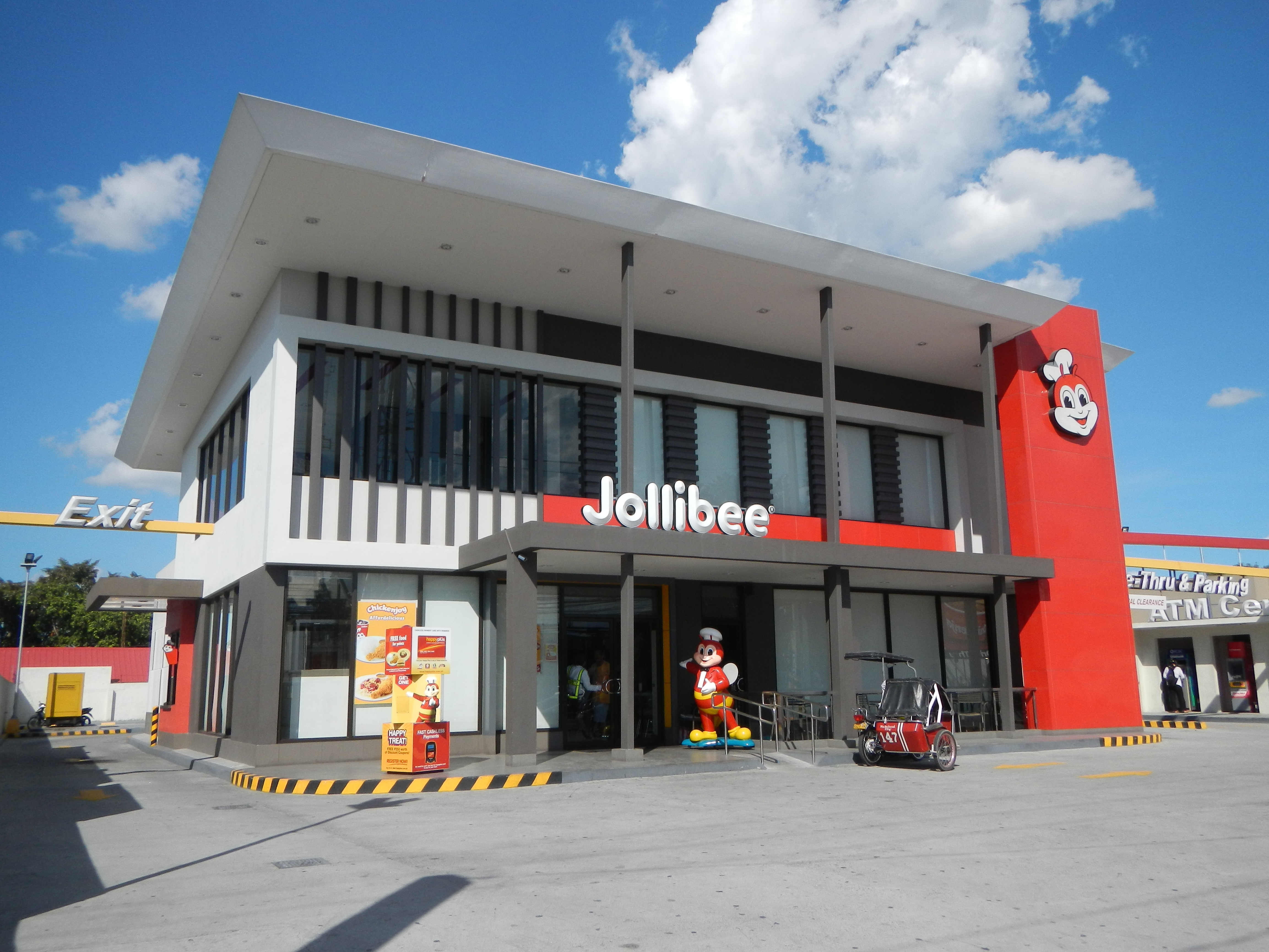 Jollibee restaurants (Mabalacat, Pampanga) in Barangay Santa Ines, Mabalacat, Pampanga along MacArthur Highway.